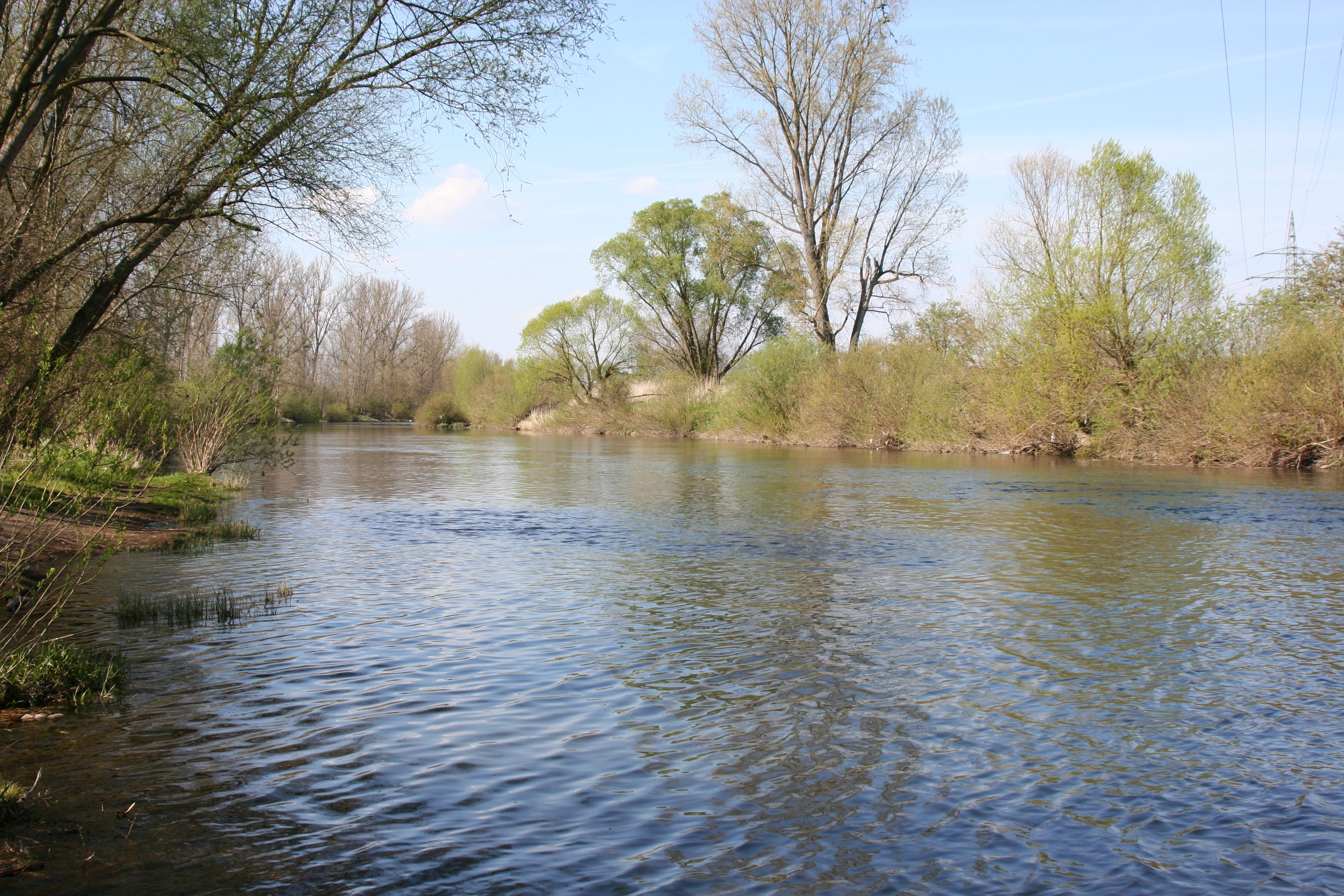 The Neckar at Untereisesheim (View downstream)